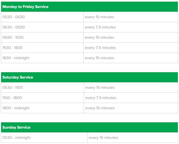 Gosport Ferry Timetable